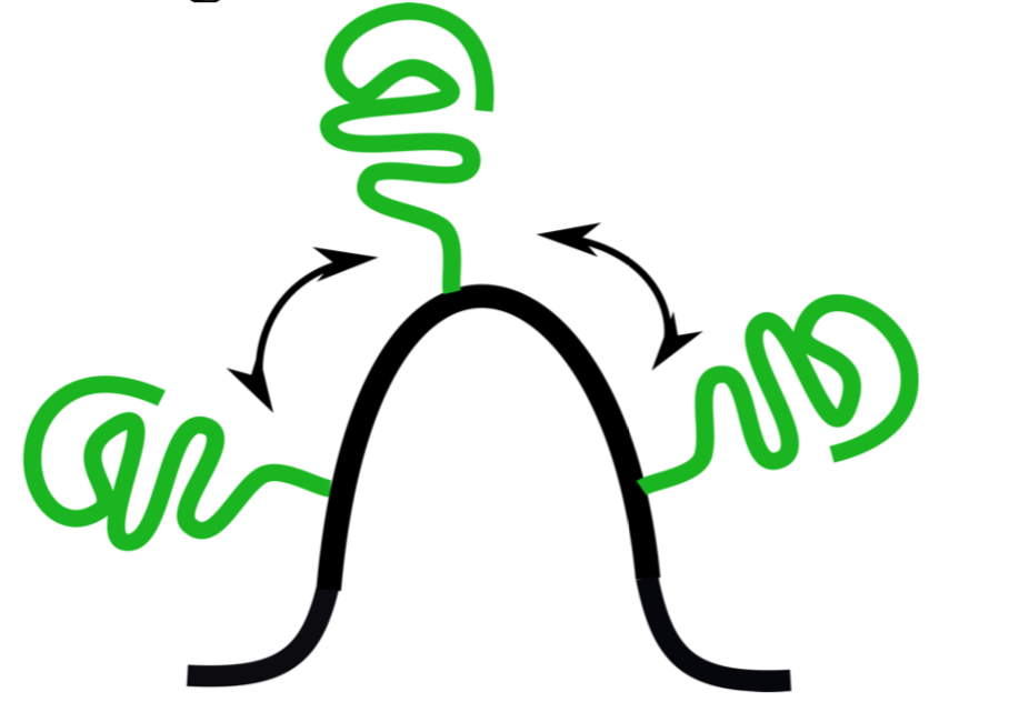 A high local concentration of protein on the membrane surface leads to membrane bending. It's been postulated that this happens because of the steric pressure generated by protein repulsion on the membrane surface.